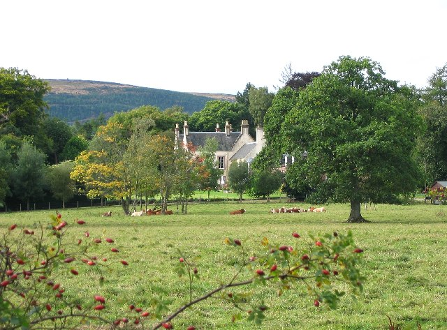 Drummonie House. Picture taken from "Silver Walk" a footpath that runs beside a burn between Drummonie and Ballendrick House